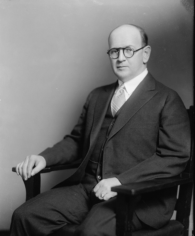 John L. Cable, congressman from Lima, Ohio.